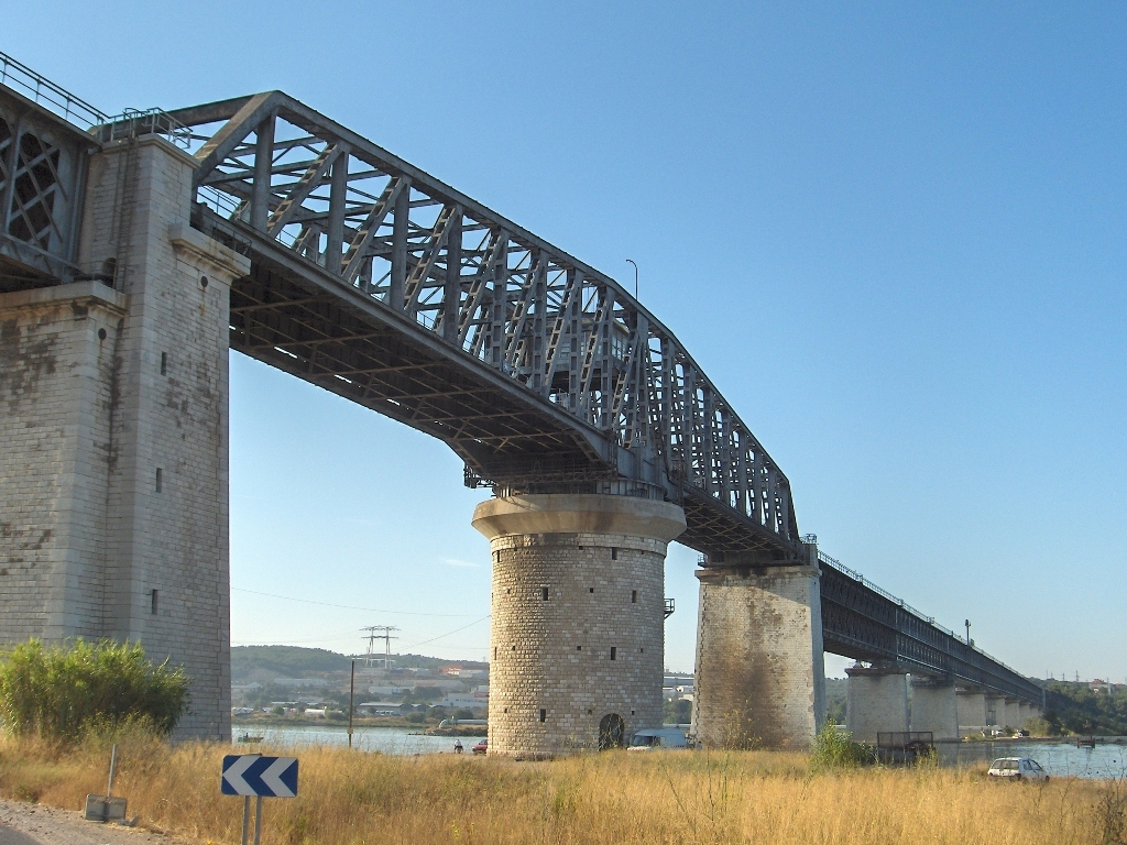 Railroad bridge of Caronte (Martigues, Bouches-du-Rhône, France, 2008)